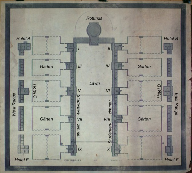 Plan of the University of Virginia, the so-called "Maverick plan" (1825), with modern labels Classification: N-385 , L-00-18 Support: Wove paper, illegible watermark Dimensions: 21 x 18-1/2 in. Owner: ViU (description partly taken from source)